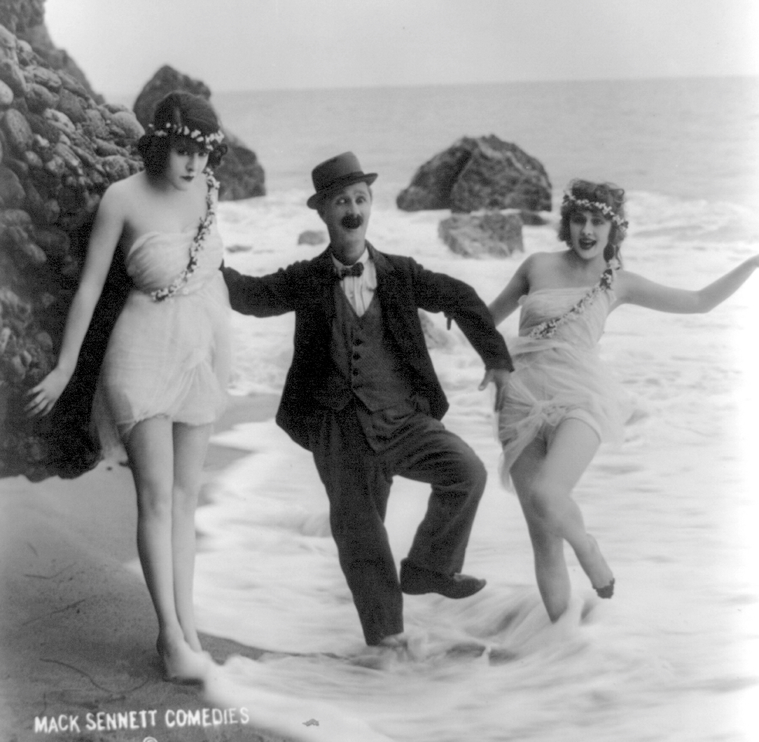 Ben Turpin with 2 "bathing beauties"; silent film era Mack Sennett publicity photo via . c. 1917 - 1924